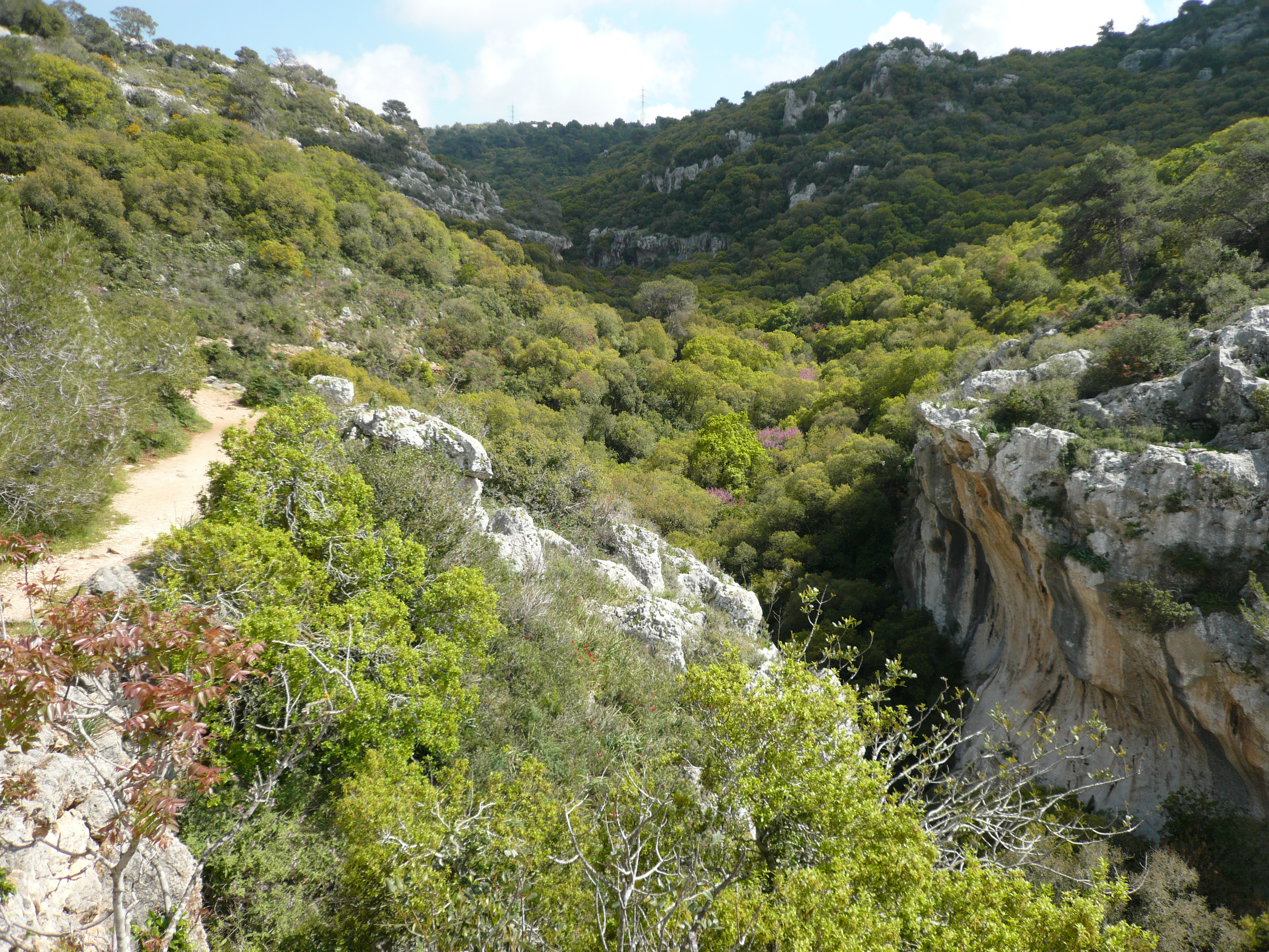 So-called Little Switzerland near Haifa, Israel